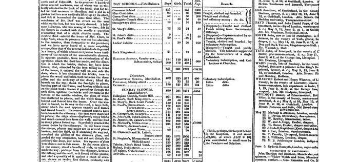 The Guardian - первый материал в истории дата-журналистики, 1821 год.